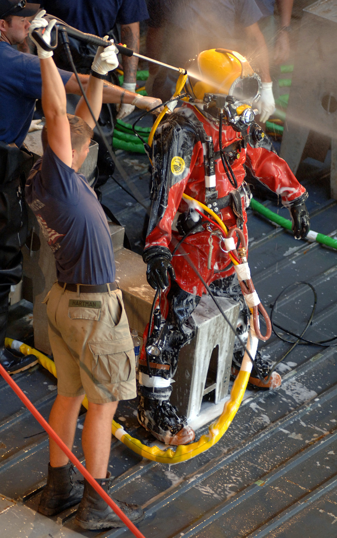 New Orleans (Sept. 11, 2005) – U.S. Navy Sailors assigned to Mobile Diving and Salvage Unit Two (MDSU-2), Detachment Two, work together to thoroughly clean and sanitize a diver immediately after completing dive operations from a Mechanized Landing Craft (LCM) in the well deck of the dock landing ship USS Tortuga (LSD 46). The divers are sanitized due to the condition of the water in the aftermath of Hurricane Katrina in the New Orleans area. Tortuga is currently moored at Naval Support Activity New Orleans in support of Hurricane Katrina humanitarian assistance operations. The Navy's involvement in the humanitarian assistance operations are being led by the Federal Emergency Management Agency (FEMA), in conjunction with the Department of Defense. U.S. Navy photo by Photographer's Mate 3rd Class Kristopher Wilson (RELEASED)